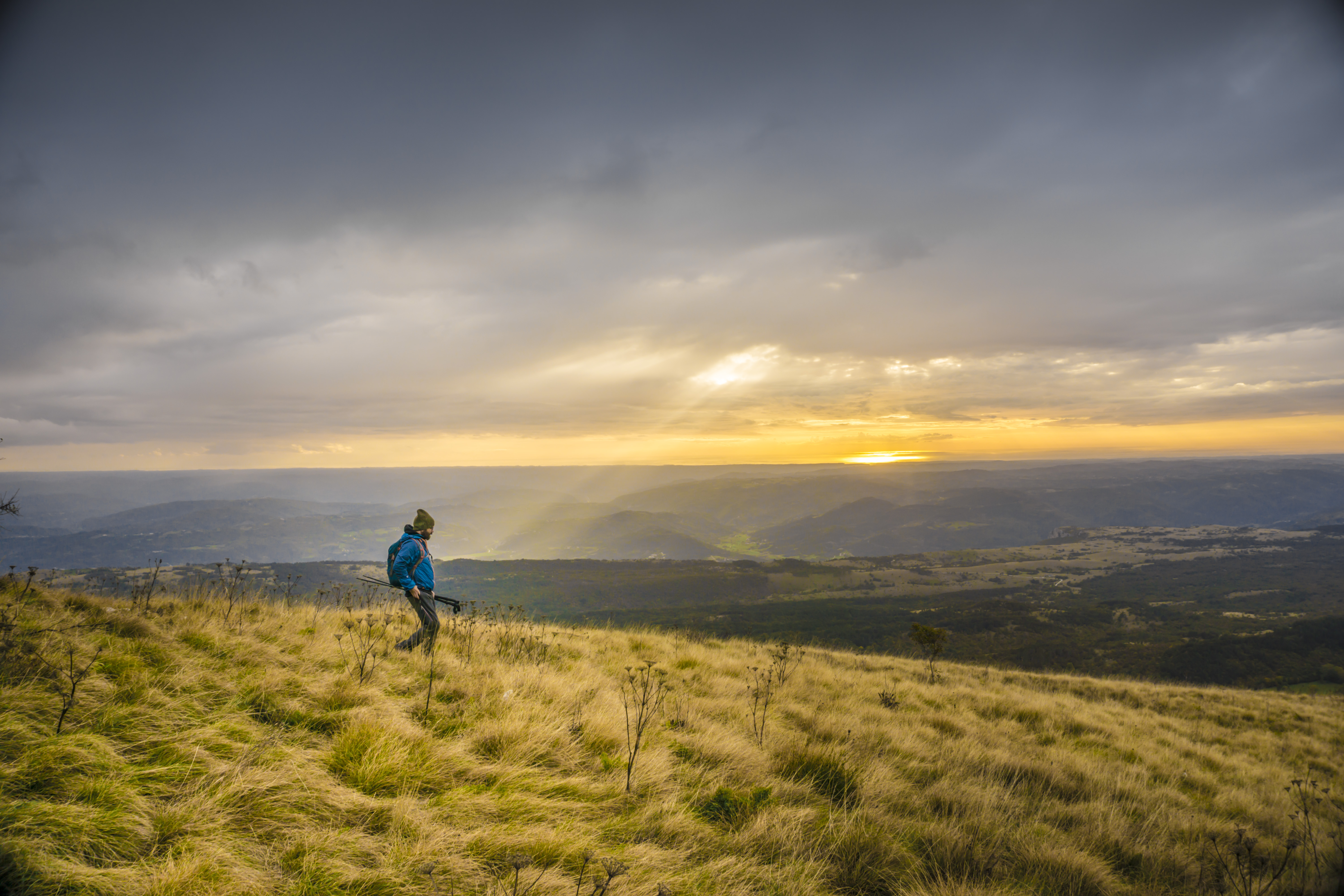 Zbevnica, Brest, Croatia